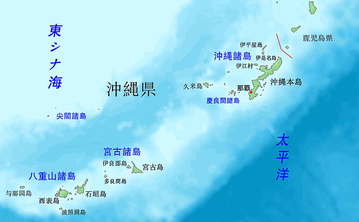 Map of the Okinawa Prefecture, in Japanese. Made by the uploader.